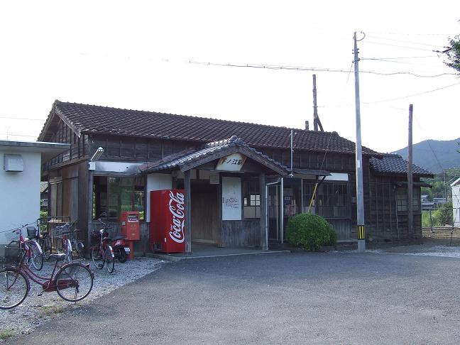 Shitanoe Station on JR Kyushu Nippo Main Line